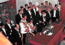 Crowning of King Faisal II